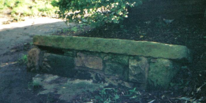 The Monk's or Mack's Well in Kilmaurs, Ayrshire. It lies below Kilmaurs Place in the park. 2006.